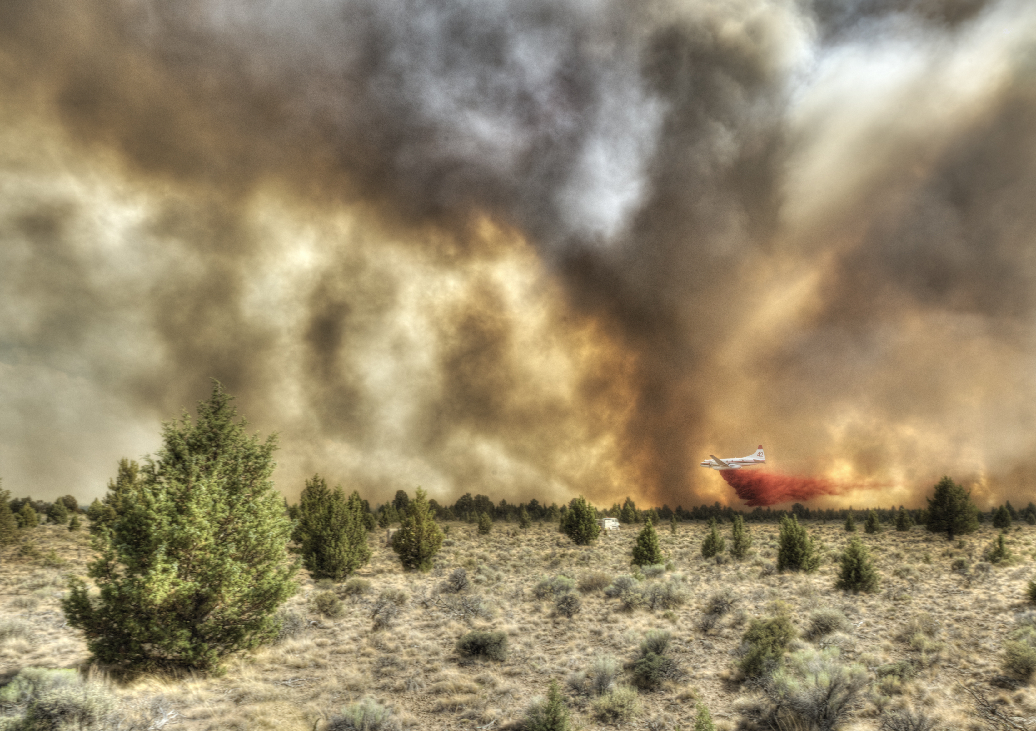 The Lava Fire started on July 23, and is currently around 8,100 acres (3,300 ha). The fire was ignited by lightning and detected on July 23. This fire is about 20 percent contained. It is approximately 15 miles (24 km) northeast of Christmas Valley and Ft. Rock, Oregon: Latitude (43.4892) Longitude (-120.7572). The fire is burning vegetation inside of a lava flow, which is located within a Wilderness Study Area (WSA). Smoke may be visible for several weeks if weather remains hot and dry. Additional information is always available online at